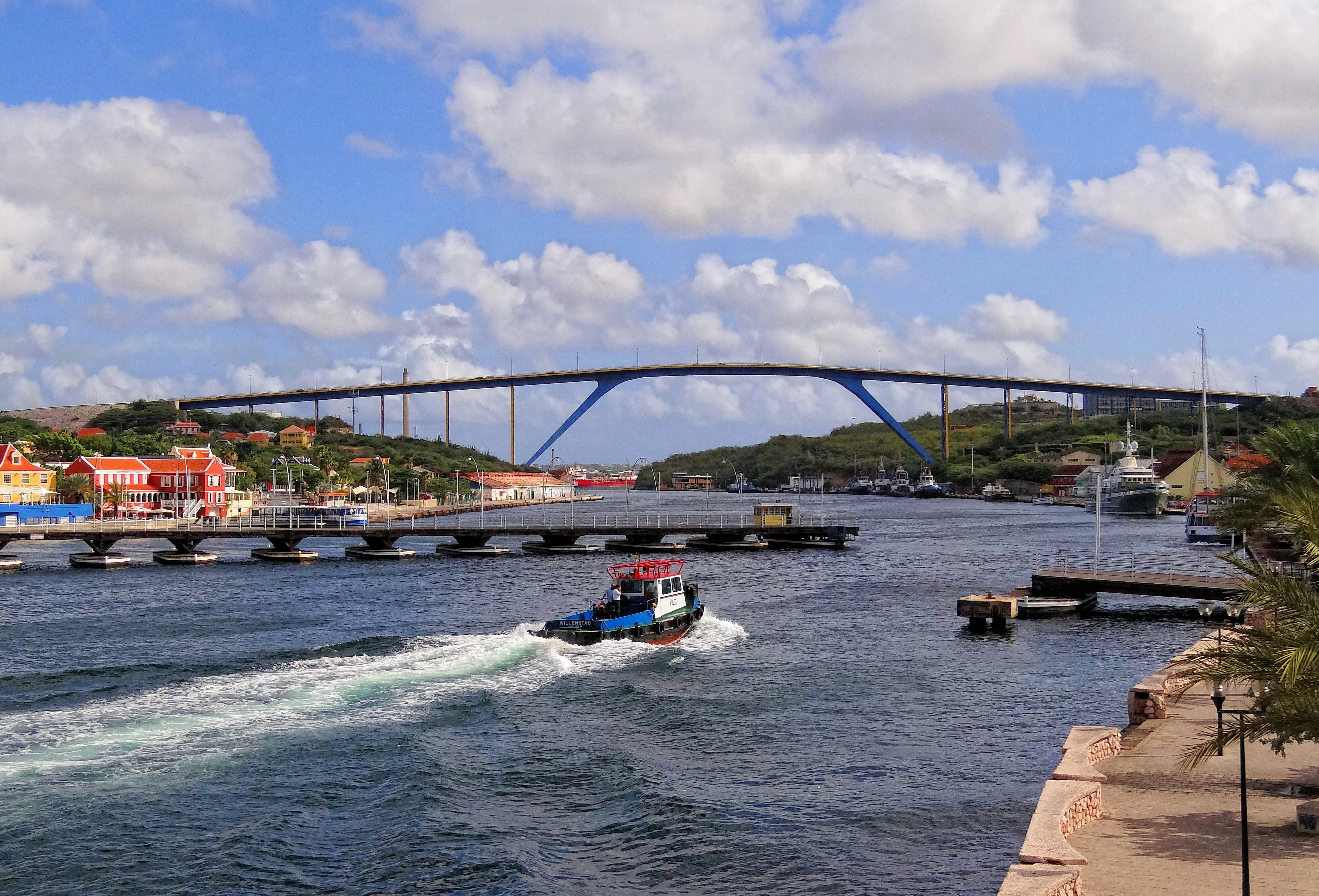 The Queen Emma pontoon bridge while semi-open, and Queen Juliana bridge, in Willemstad, Curacao.